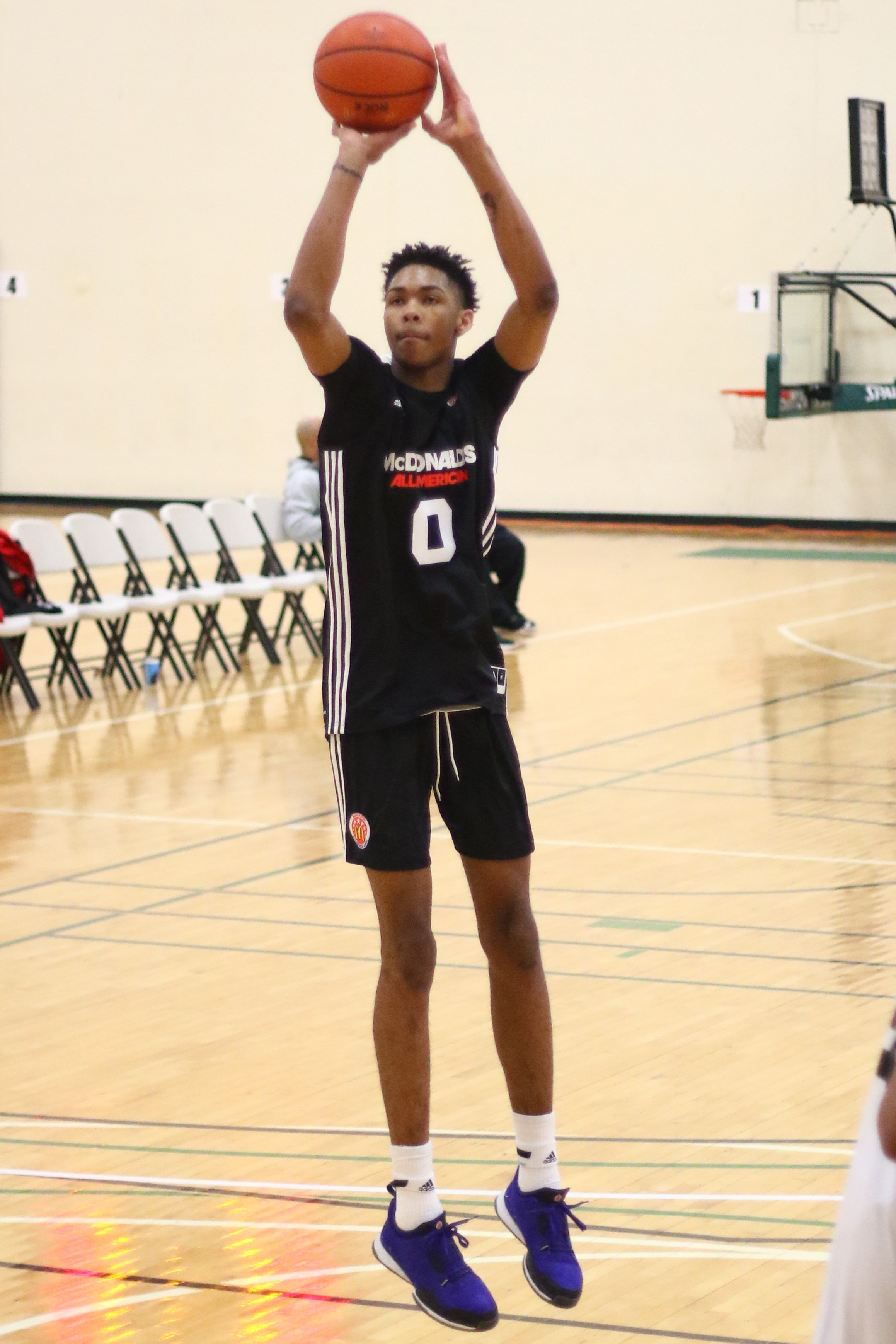 Brandon Ingram in the w:2015 McDonald's All-American Boys Game closed practice